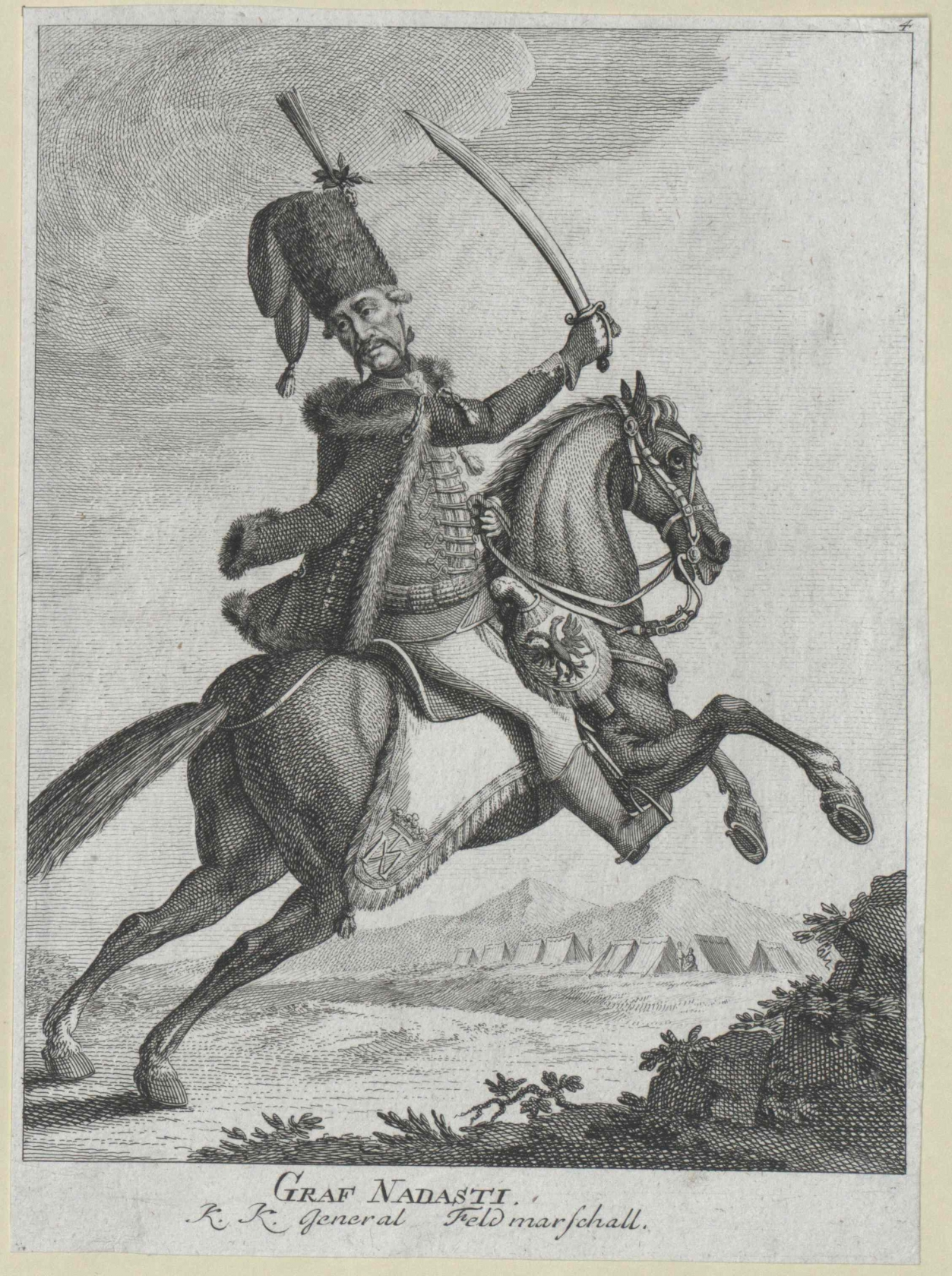 Gróf nádasdi és fogarasföldi Nádasdy Ferenc (Regede, 1708. október 27. – Károlyváros, 1783. március 22.): magyar főnemes, császári tábornagy, horvát bán